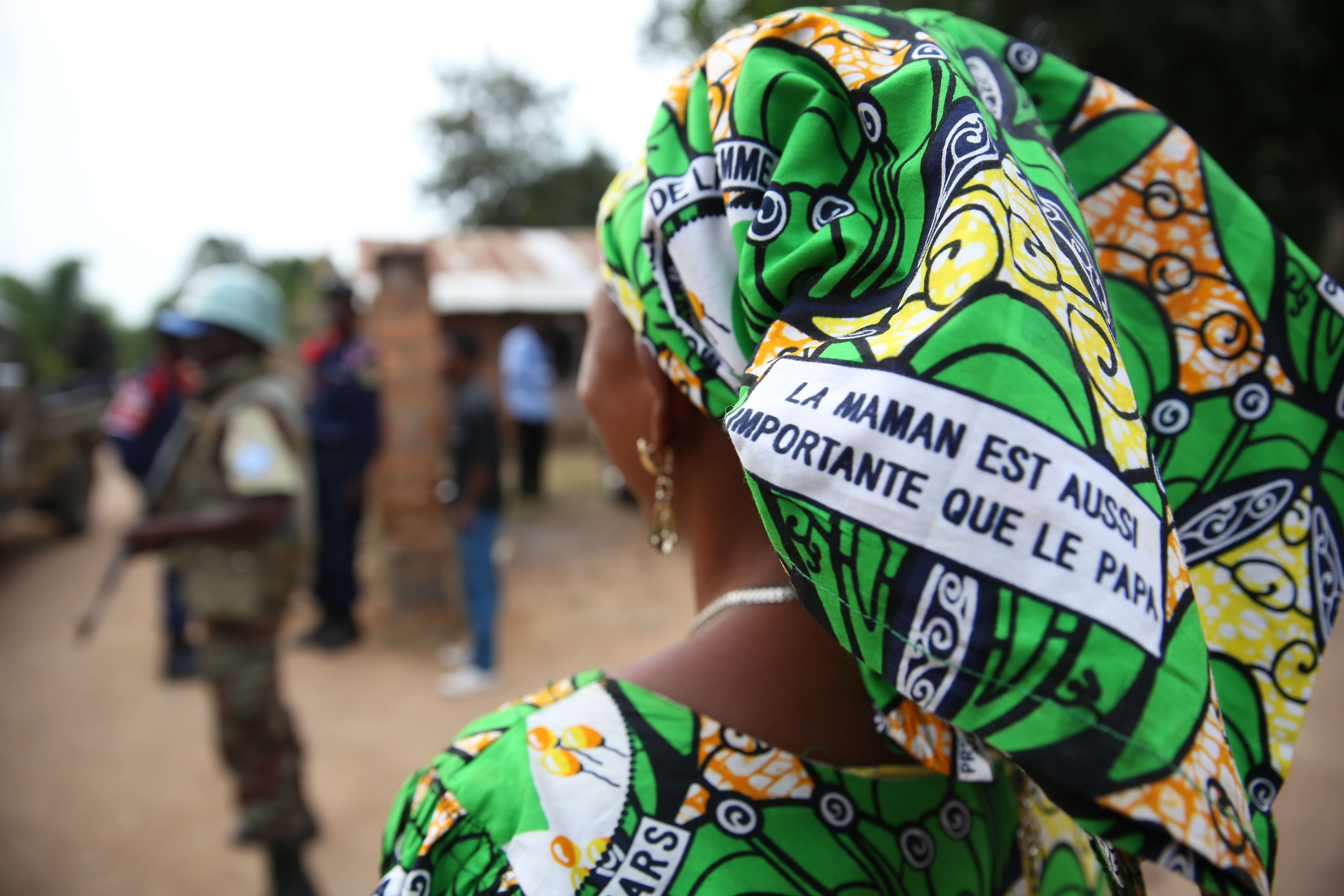 18 mai 2015, Nyunzu, Katanga, RD Congo : Une femme congolaise défend et promeut les droits des femmes via un message imprimé sur ses pagnes (robe longue avec blouse et foulard de tête assortis). Photo MONUSCO / Abel Kavanagh = 18 May 2015, Nyunzu, Katanga, DR Congo: A Congolese woman defends and promotes women’s rights through a message printed on her pagnes (long dress with matching blouse and headscarf). Photo MONUSCO/Abel Kavanagh